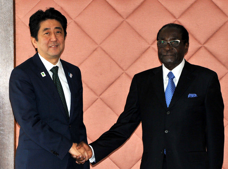 Robert Mugabe, President, met Shinzō Abe, Prime Minister, in Yokohama City, Kanagawa Prefecture on June 1, 2013.